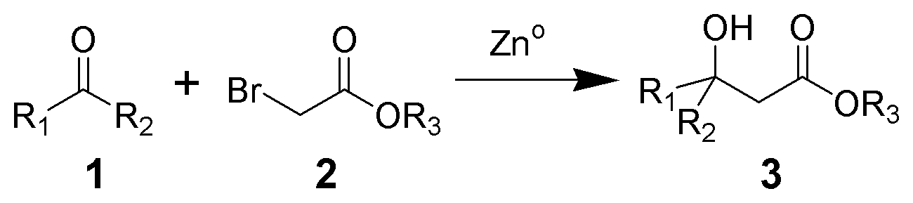 Description: Reaction scheme of the Reformatskii reaction. Author, date of creation: selfmade by ~K, 20 September 2005. Source: - Copyright: Public domain. (PD) Comments: high-resolution b/w PNG; ChemDraw / The GIMP.